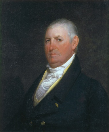 Isaac Shelby (1750–1826), the first and fifth Governor of the U.S. state of Kentucky